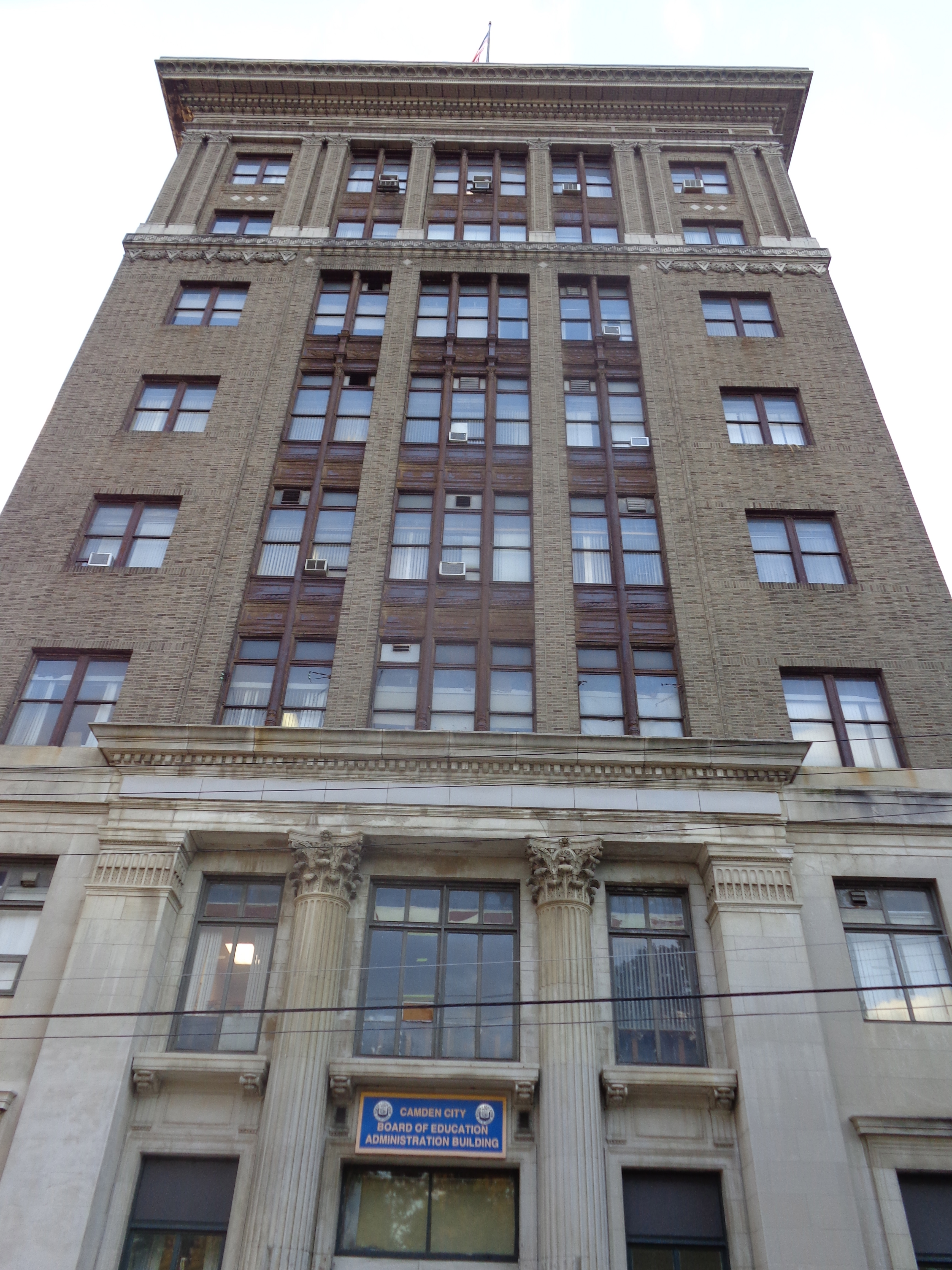 Former RCA Victor Administration Building now Camden Board of Education Administration Building in Cooper-Grant, Camden, NJ